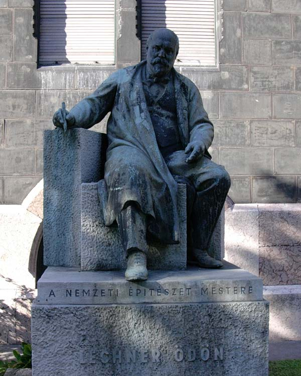 Lechner_Ödön